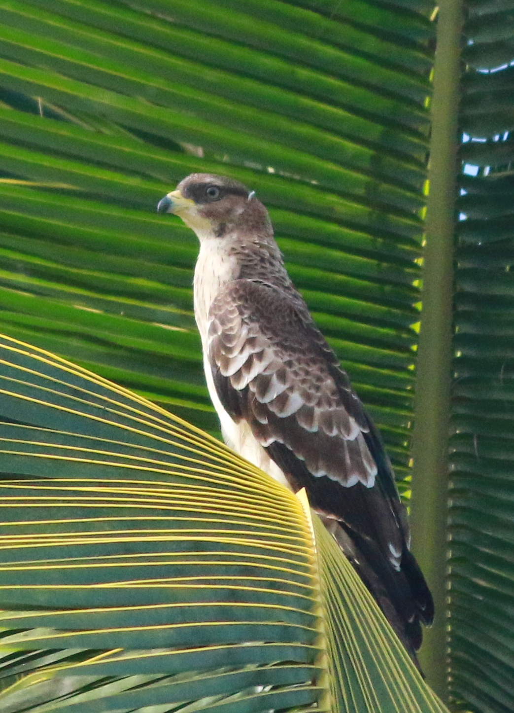 Oriental honey buzzard, young bird